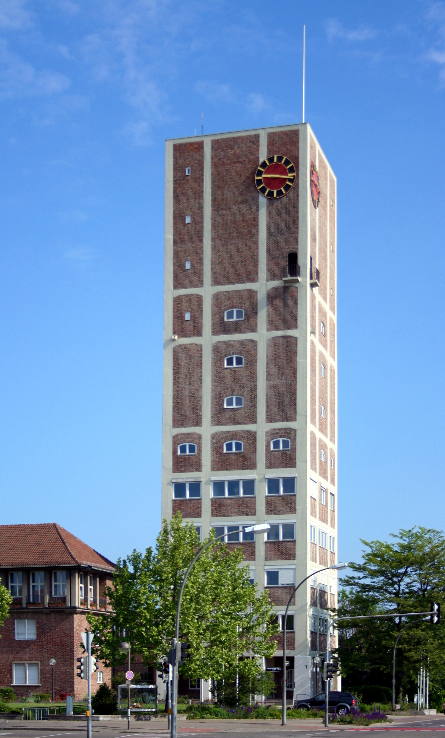 City hall at Kornwestheim, administrative district Ludwigsburg, Baden-Wurttemberg, Germany. Registered in the monument list of the government presidium of Stuttgart (2005).